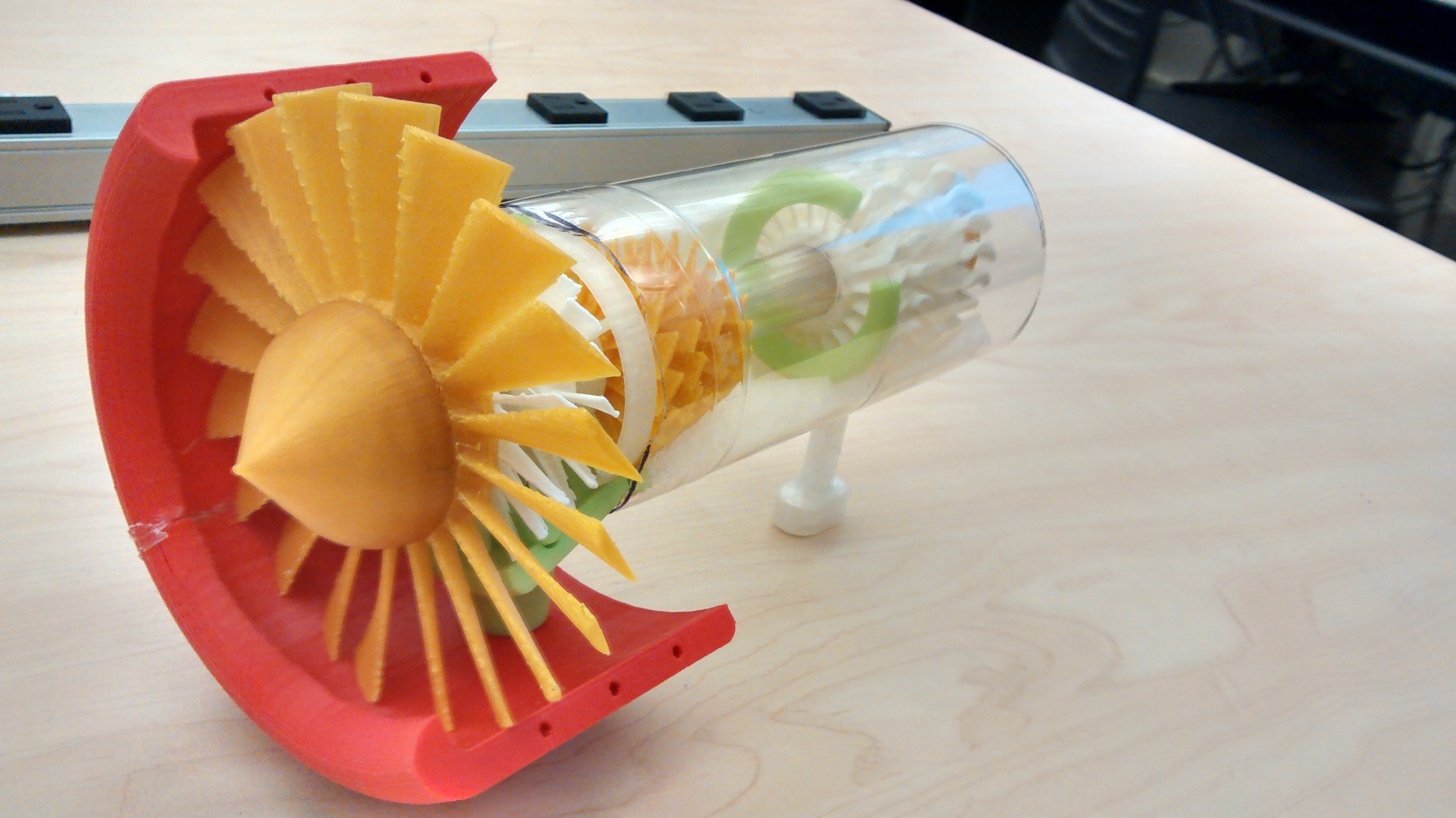 A Jet Engine turbine printed from the Howard Community College Makerbot